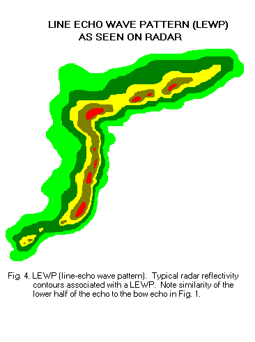 An idealized radar schematic of a line echo wave pattern (LEWP) thunderstorm complex.